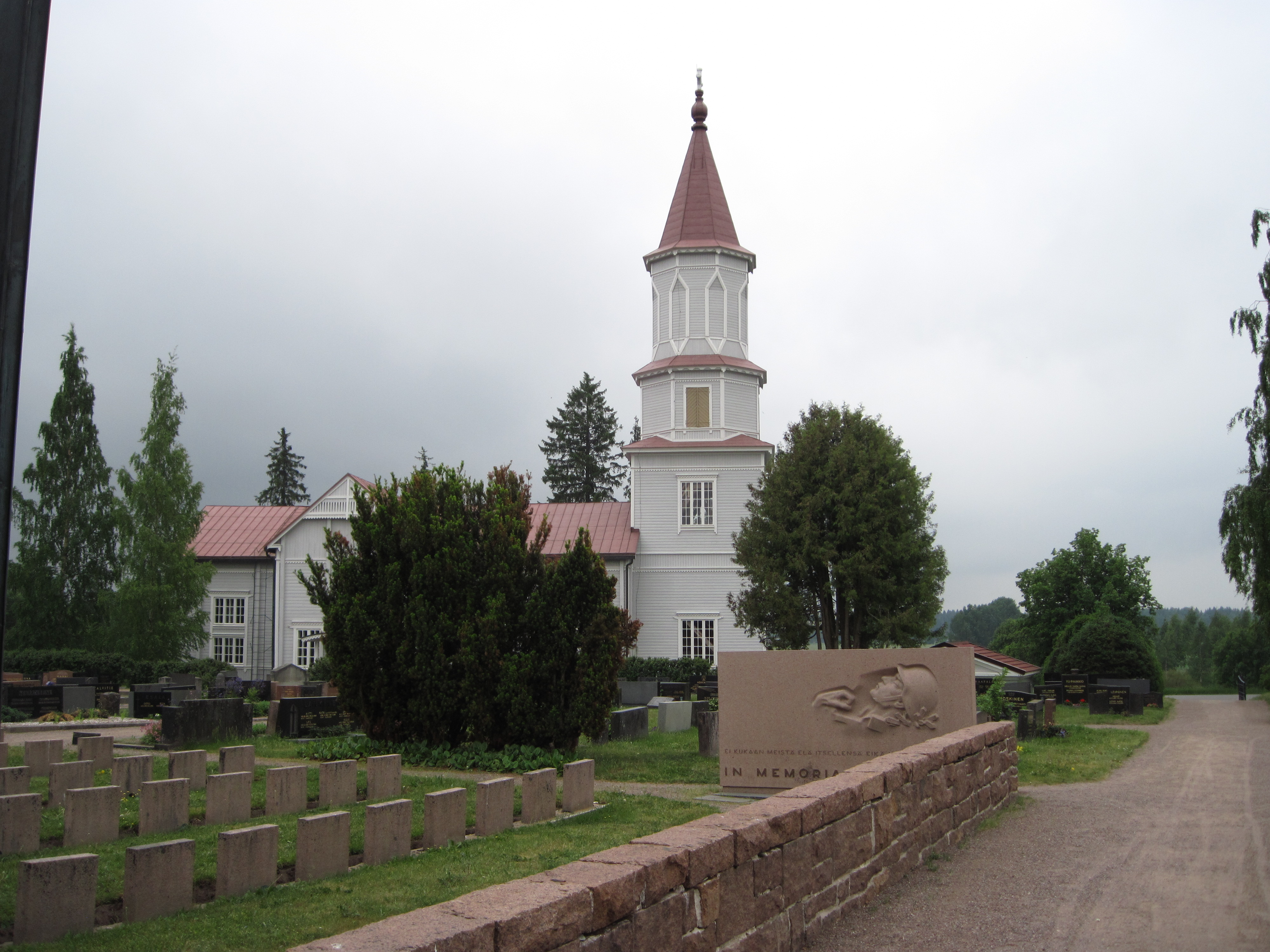 Military cemetary at church in Mellilä, Finland